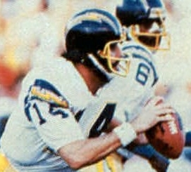 San Diego Chargers quarterback Dan Fouts pictured in an offensive play in the 1981 AFC Divisional Playoff Game on January 2, 1982.